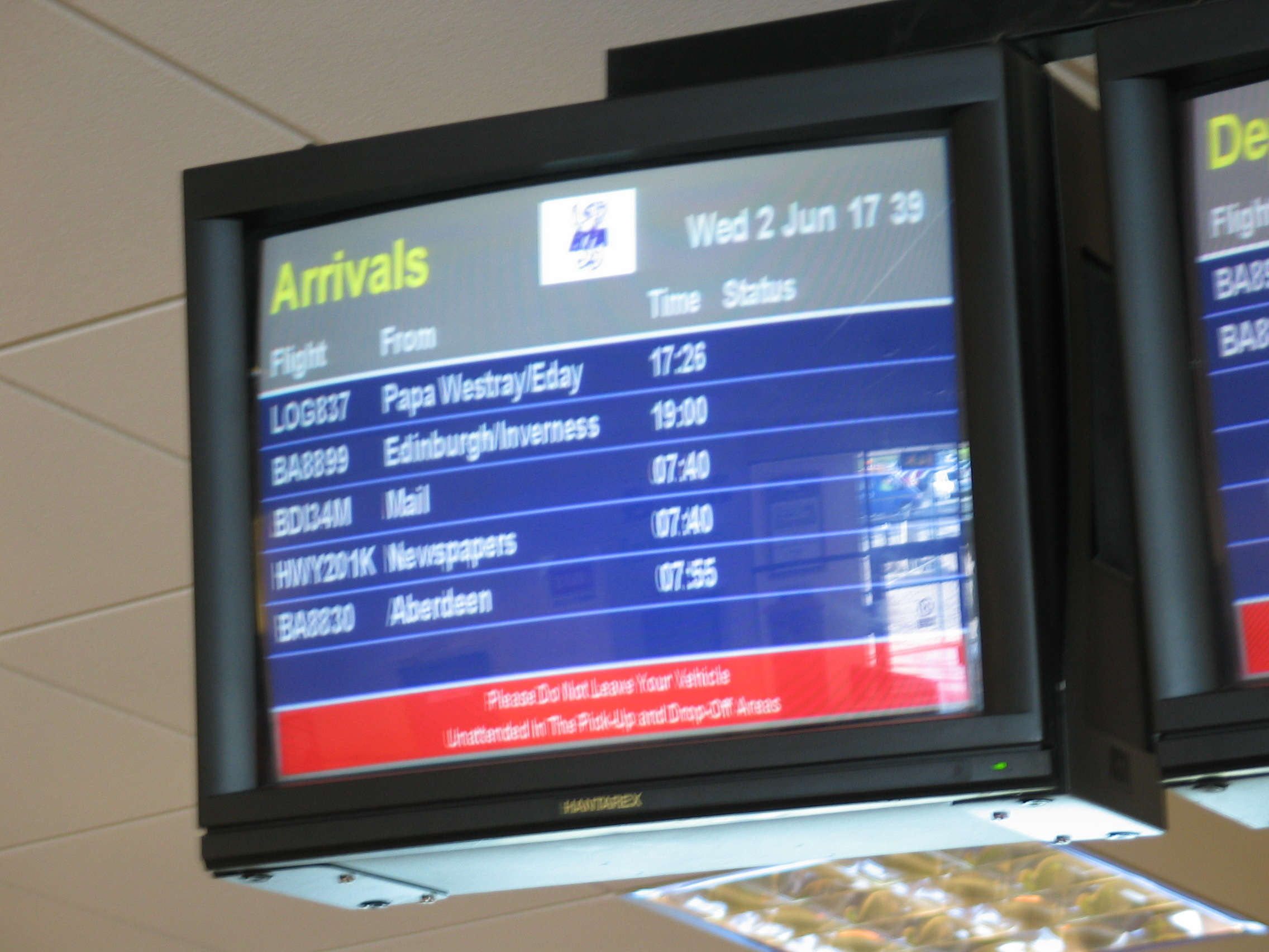 Arrival screen, Airport Lounge, Kirkwall, Orkney, Scotland